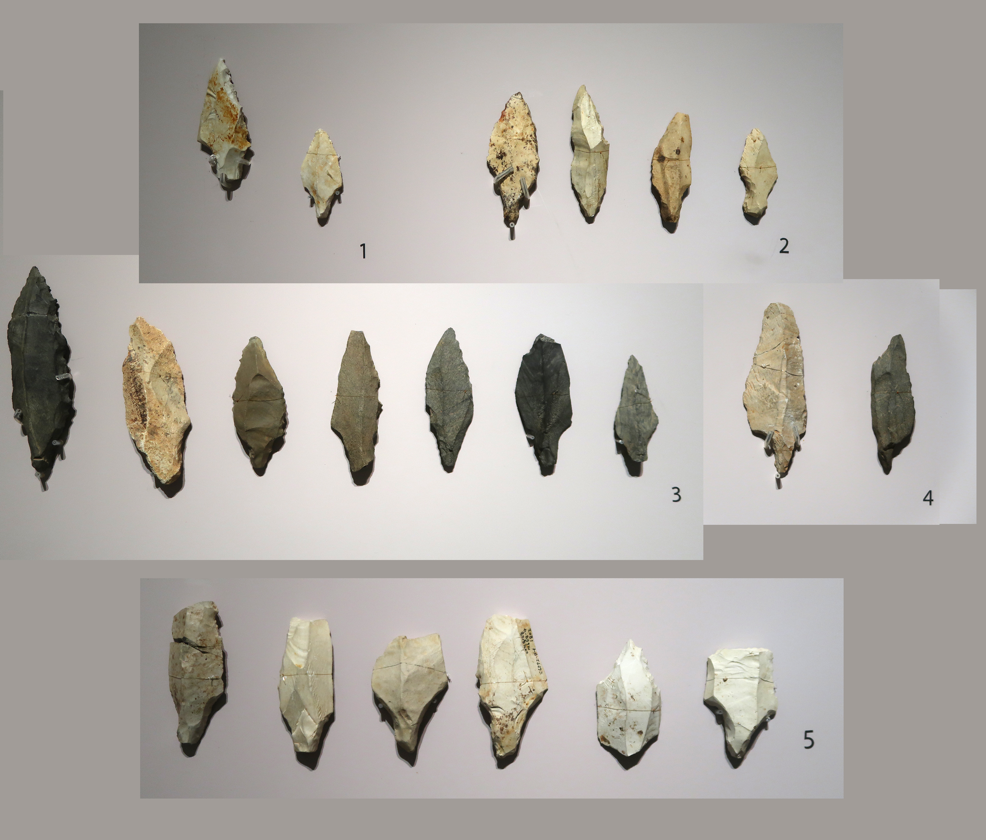 Tanged Points. National Museum of Korea.